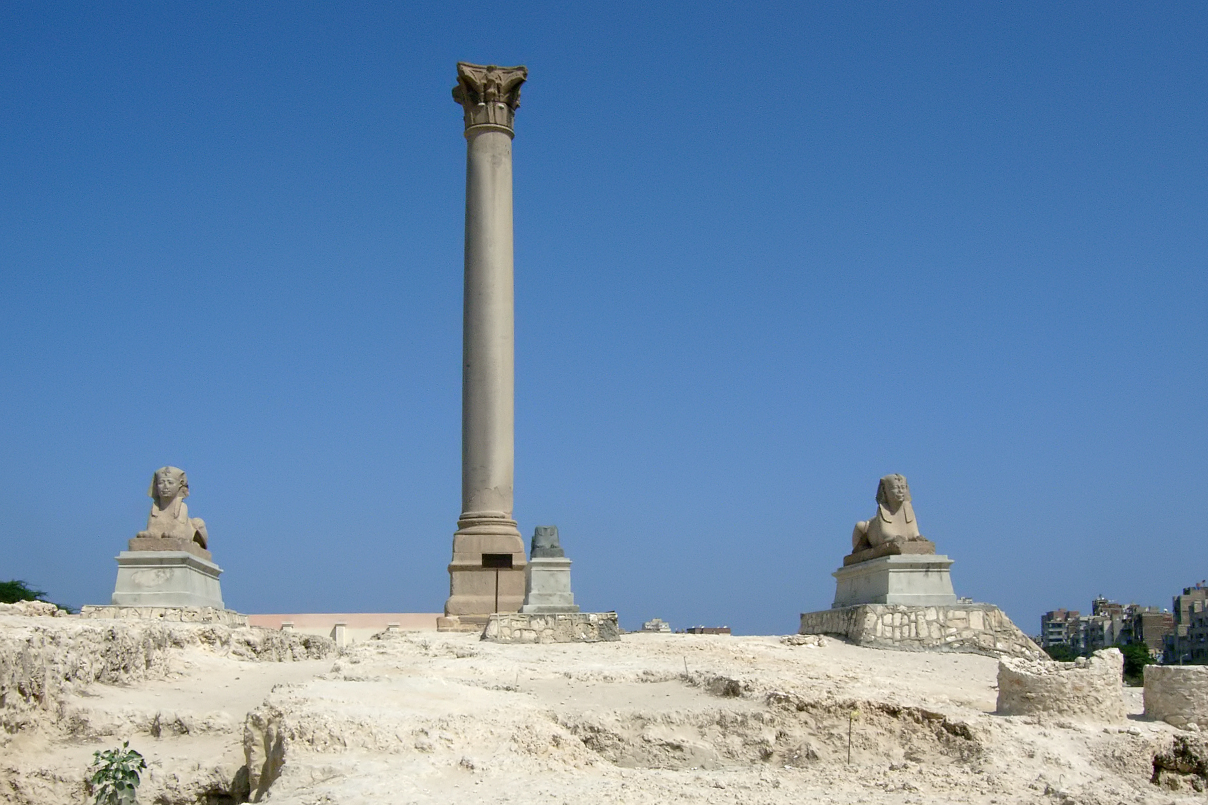 Pompey’s Pillar, Sarapaion, Alexandria, Egypt